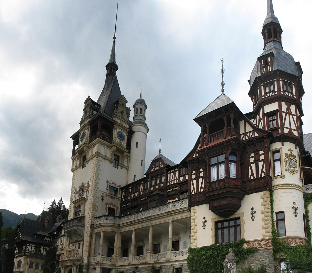 Castelul Peleş. Sinaia, Romania 01